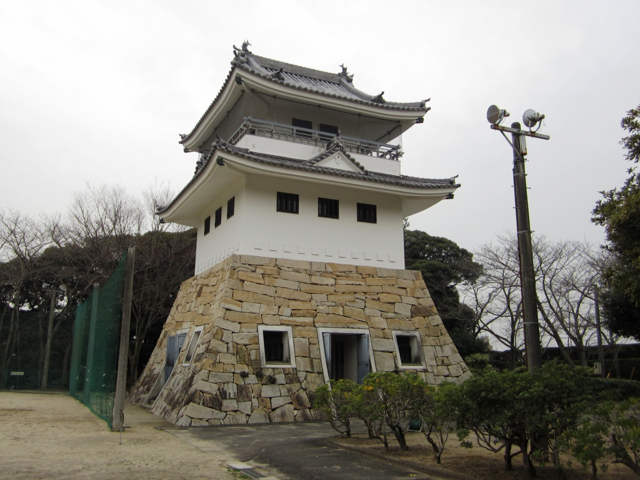 The site of Ōkusa Castle in Chita, Aichi.